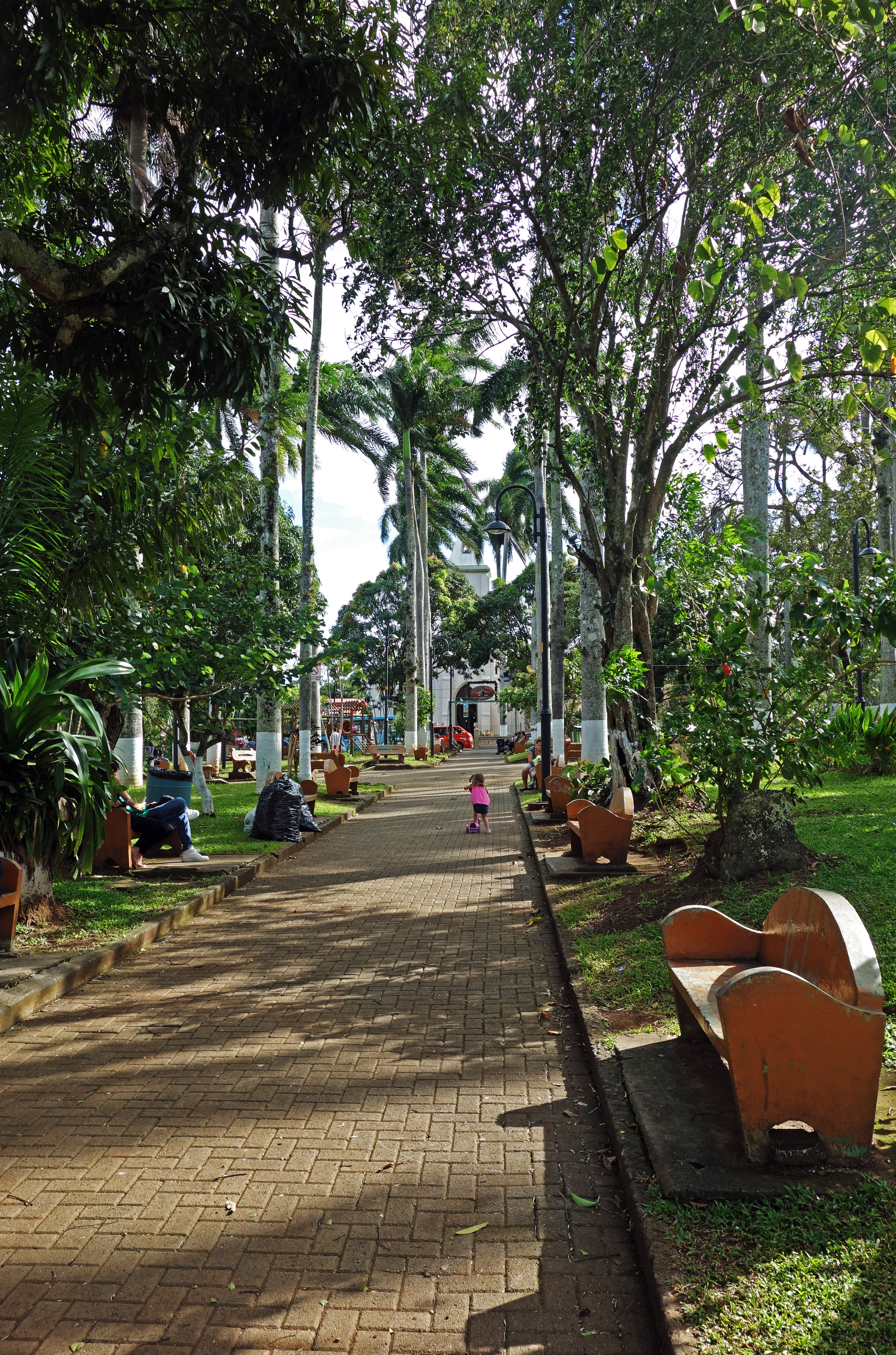 Parque Central in Atenas, Costa Rica